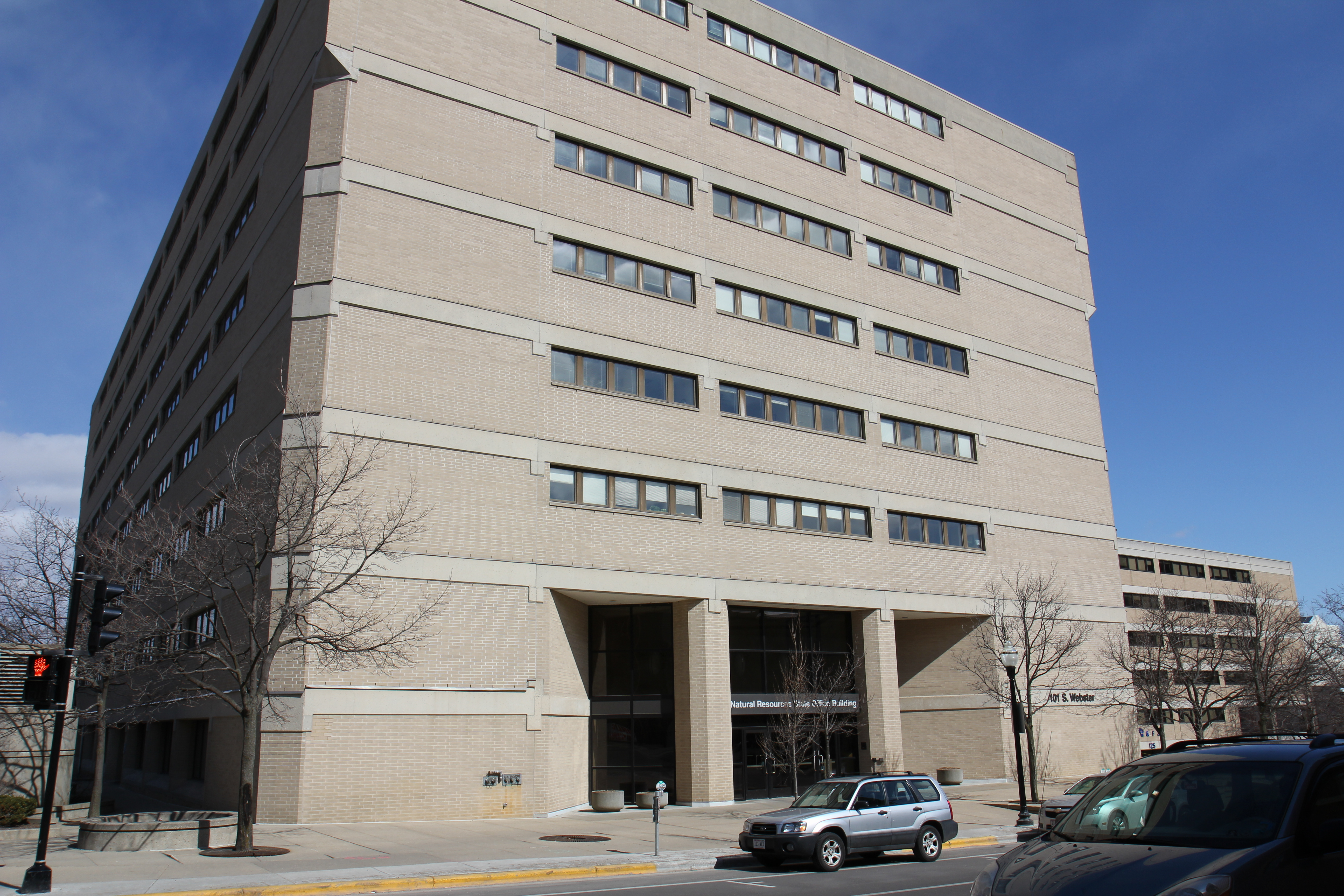 The building for the Wisconsin Department of Natural Resources (WDNR) in Madison, Wisconsin.